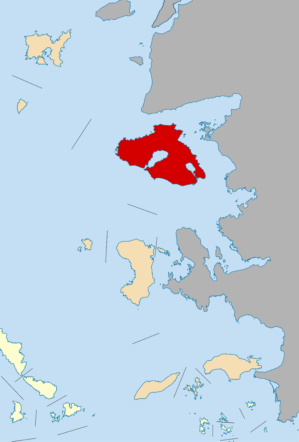 Locator map for Lesbos municipality in Greek region North Aegean (2011)